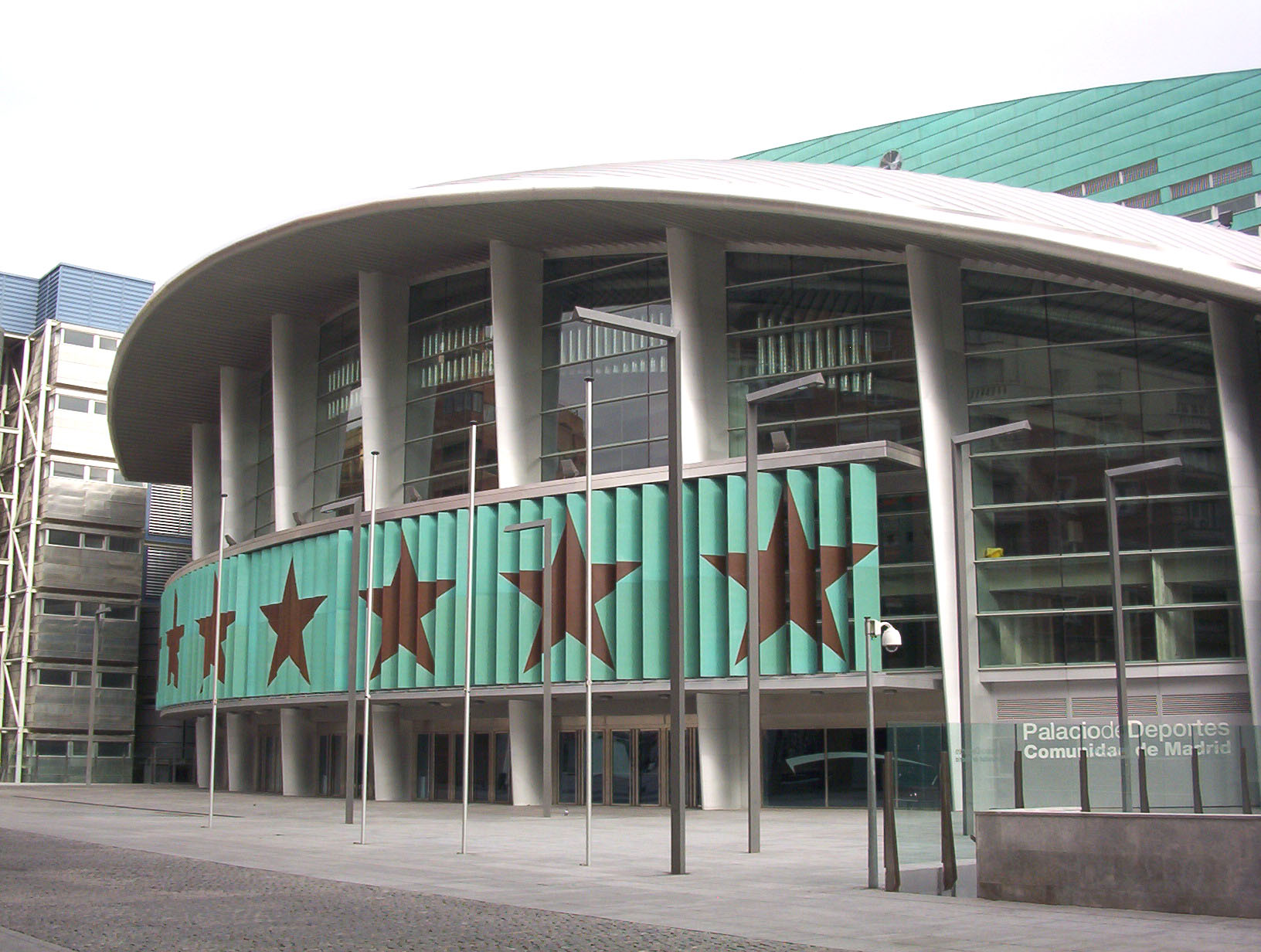 West façade (Calle Lombia, street) of the Palacio de Deportes de la Comunidad de Madrid (Madrid, Spain, built: 2002–2005). Indoor sports building. Architects: Enrique Hermoso Lera and Paloma Huidobro de la Torre.